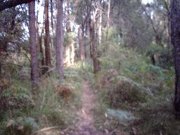 Mount Kembla summit track